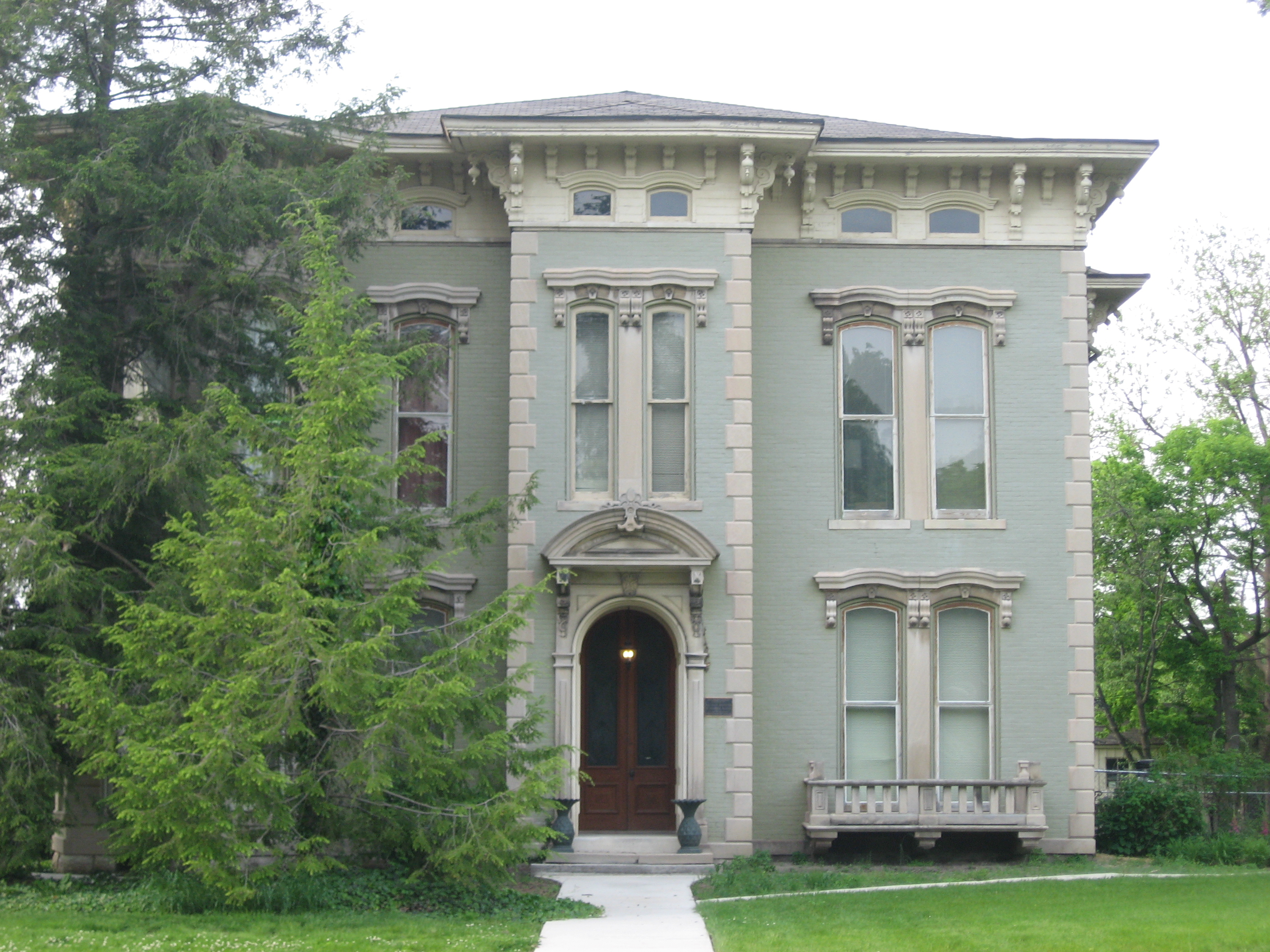 Front of the F.P. Nelson House, located at 701 E. Seminary Street in Greencastle, Indiana, United States. Built in 1871, it is listed on the National Register of Historic Places, and it is part of the Eastern Enlargement Historic District, a Register-listed historic district.